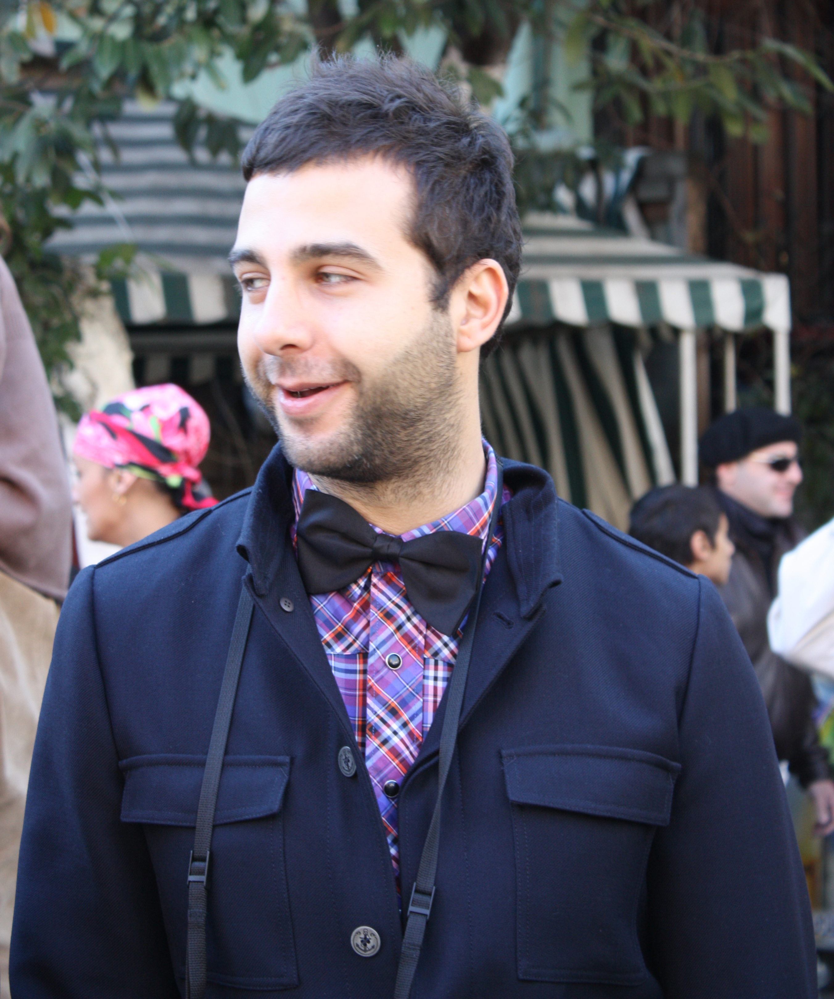 A Russian television personality, showman, and an actor. Ivan Urgant in Tbilisi, during the Tbilisi Russian Movie Festival. Visiting the Grand Opening of Rezo Gabiradze's theater.